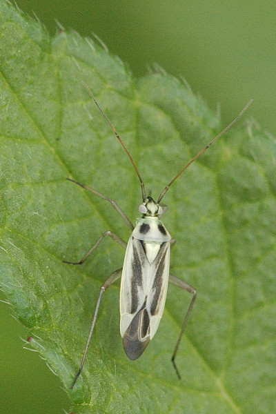 Picture taken in Commanster, Belgian High Ardennes . Species: Stenotus binotatus